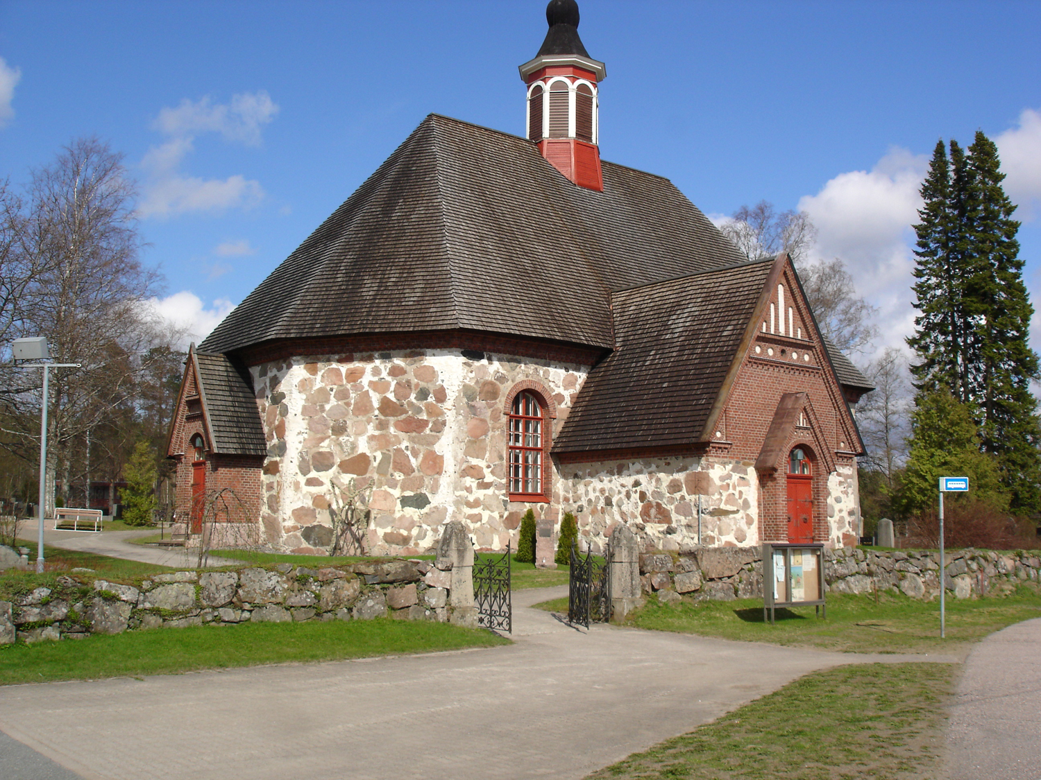 Renko Church in Renko, Finland